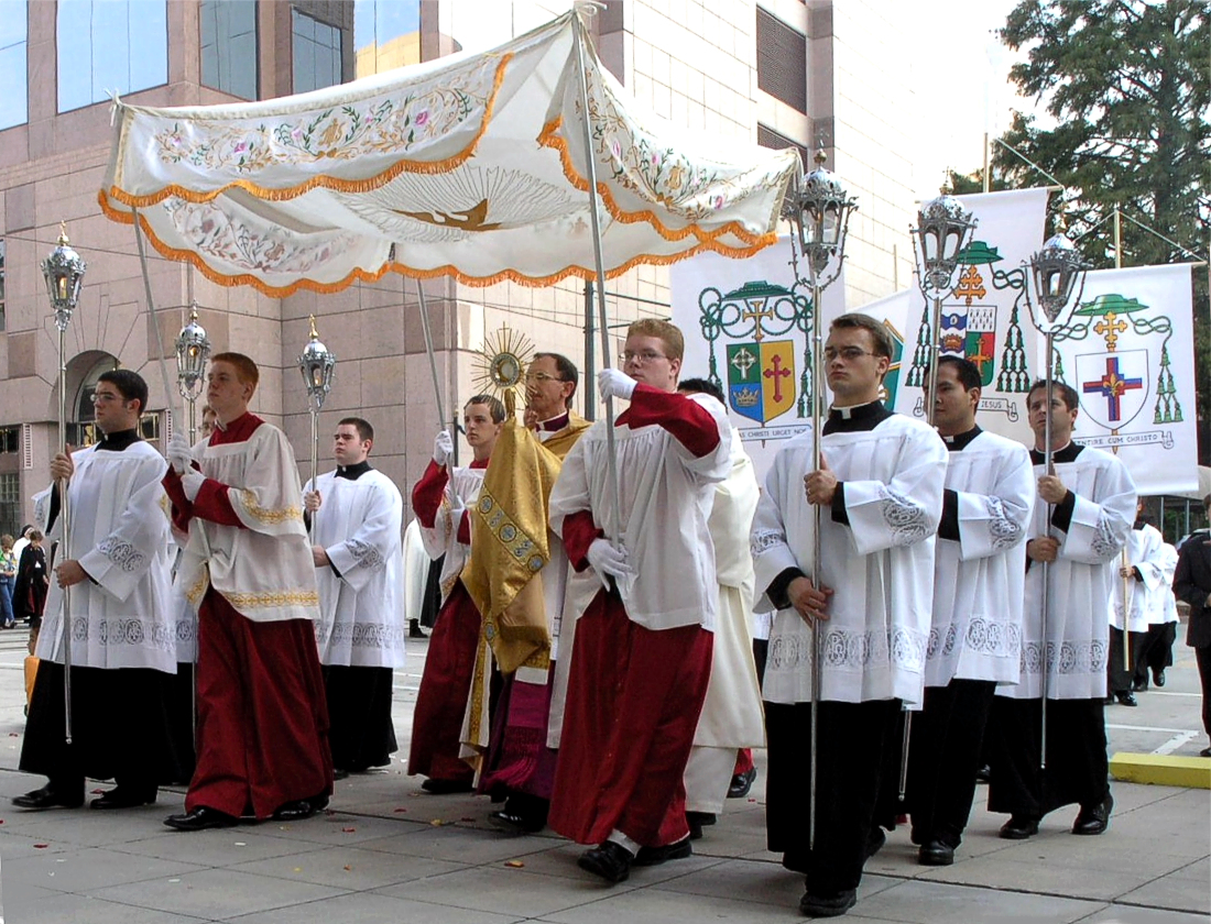 A procession of the Blessed Sacrament during the first Annual Southeastern Eucharistic Congress in Charlotte, North Carolina, USA.